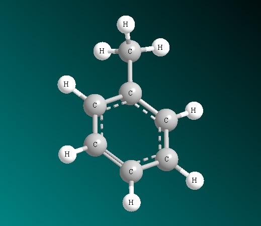 Tolueno